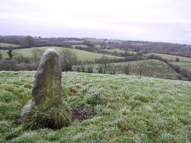 Standing stone at Beragh Hill. It is on a hill with a commanding view over the countryside. There was another stone in the adjacent field which has unfortunately been removed.